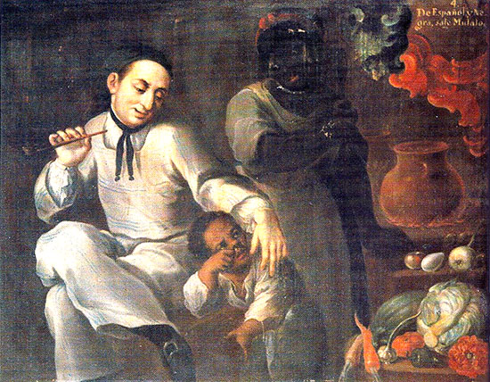 Ilustración de razas